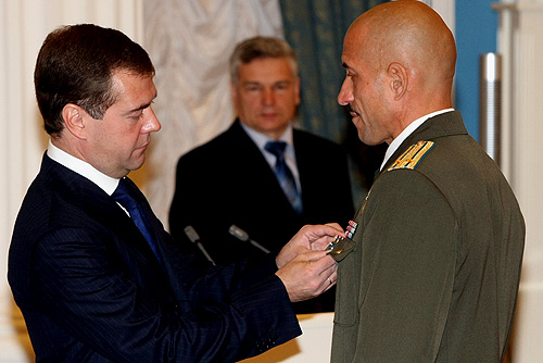 THE KREMLIN, MOSCOW. Ceremony presenting state decorations to military servicemen. Lieutenant-Colonel Anatoly Lebed was awarded the Order of St. George IV class.